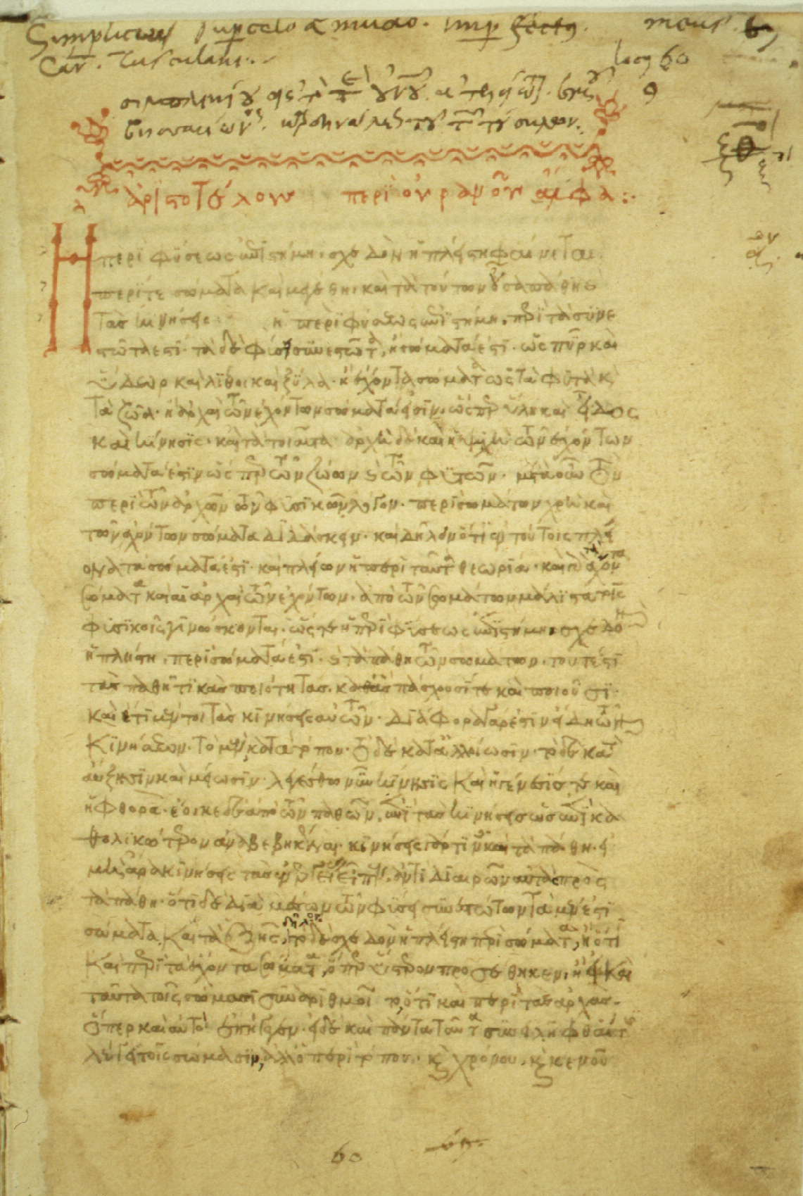 Commentatary on Aristotle's De caelo by Simplicius of Cilicia (sixth century AD). This manuscript is signed by a former owner, Cardinal Bessarion, whose household in Rome was an important center of Greek studies.